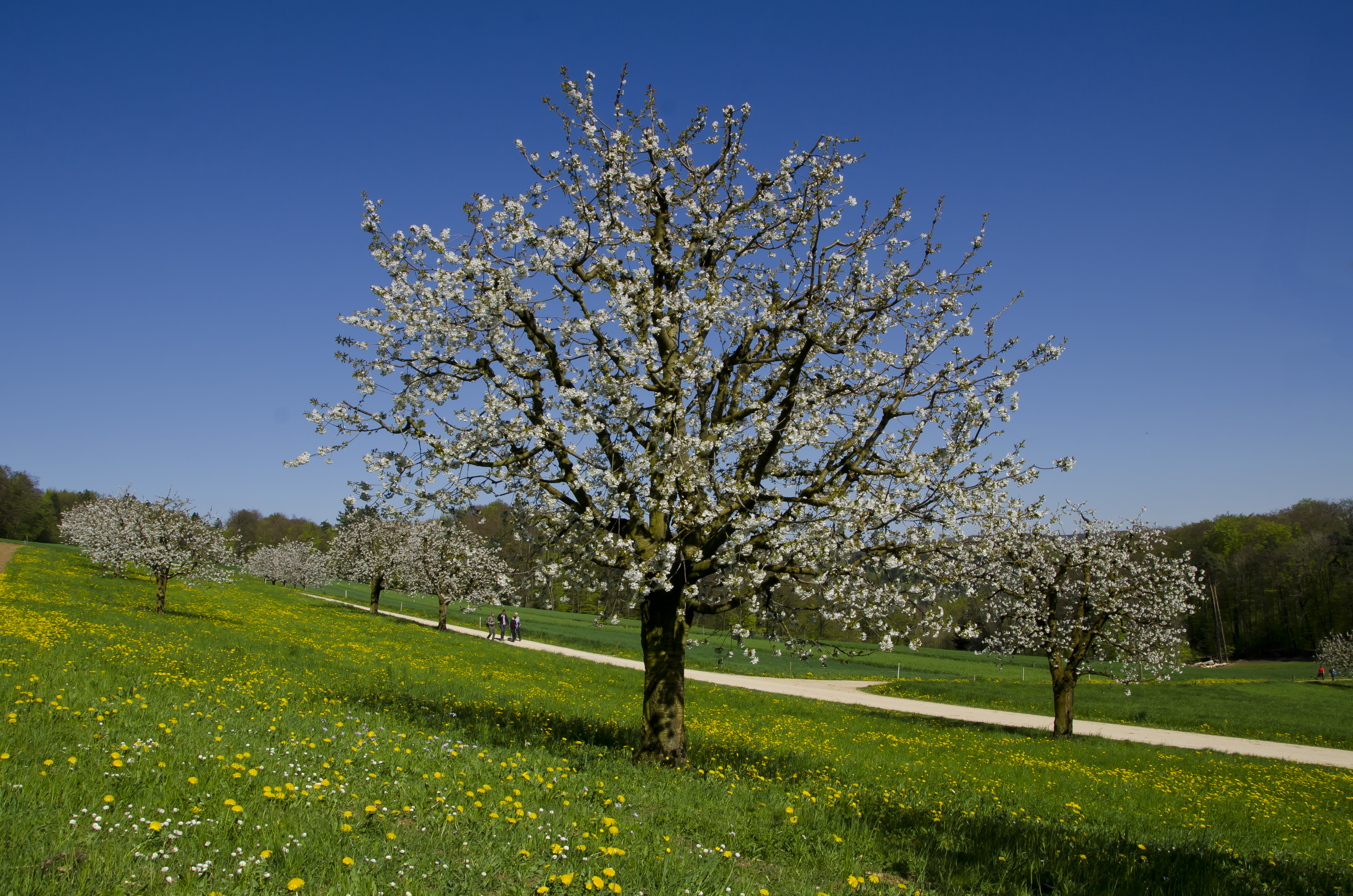 Cherry Tree